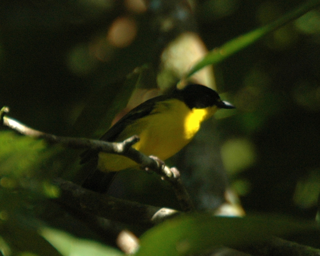 Fiji Whistler (Pachycephala graeffii) Abaca, Viti Levu, Fiji Isles